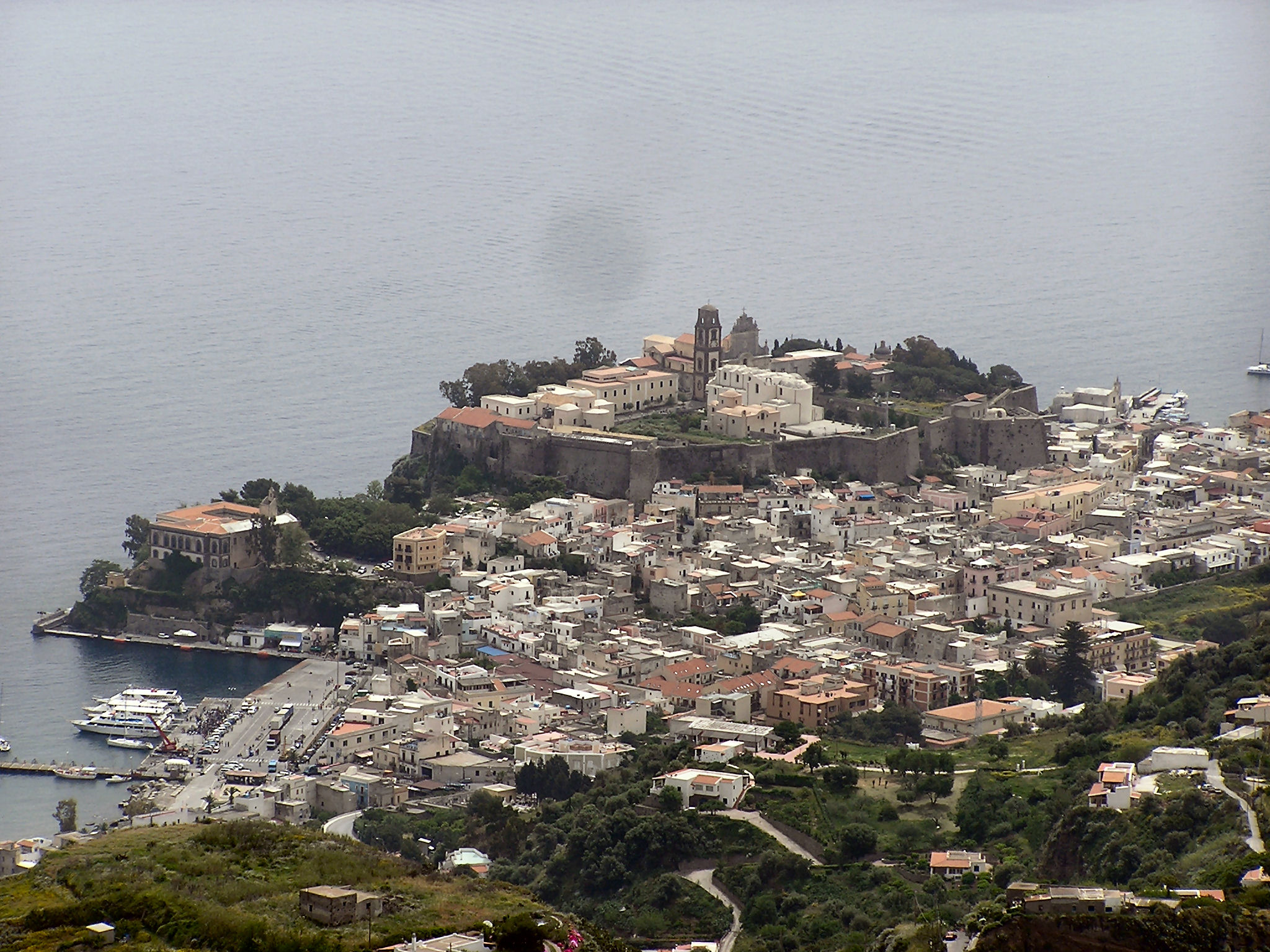 Lipari, town